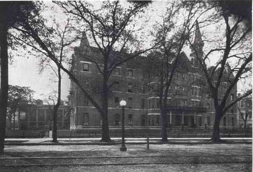 New Orleans College (New Orleans University), Uptown New Orleans, circa 1920